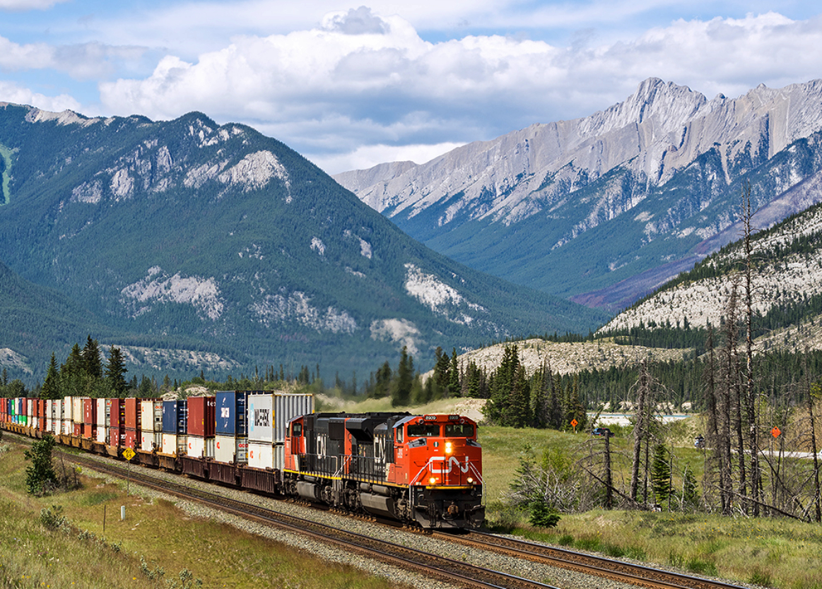 Roche de Smet and train in the Athabasca Valley, Jasper Park, Canada